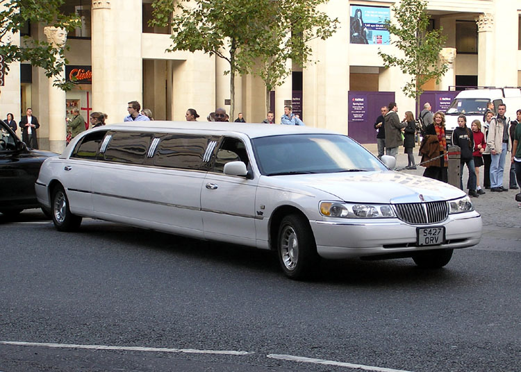 White limousine seen in London, England. Taken by Adrian Pingstone in November 2004 and released to the public domain. This work has been released into the public domain by its author, Arpingstone. This applies worldwide. In some countries this may not be legally possible; if so: Arpingstone grants anyone the right to use this work for any purpose, without any conditions, unless such conditions are required by law.